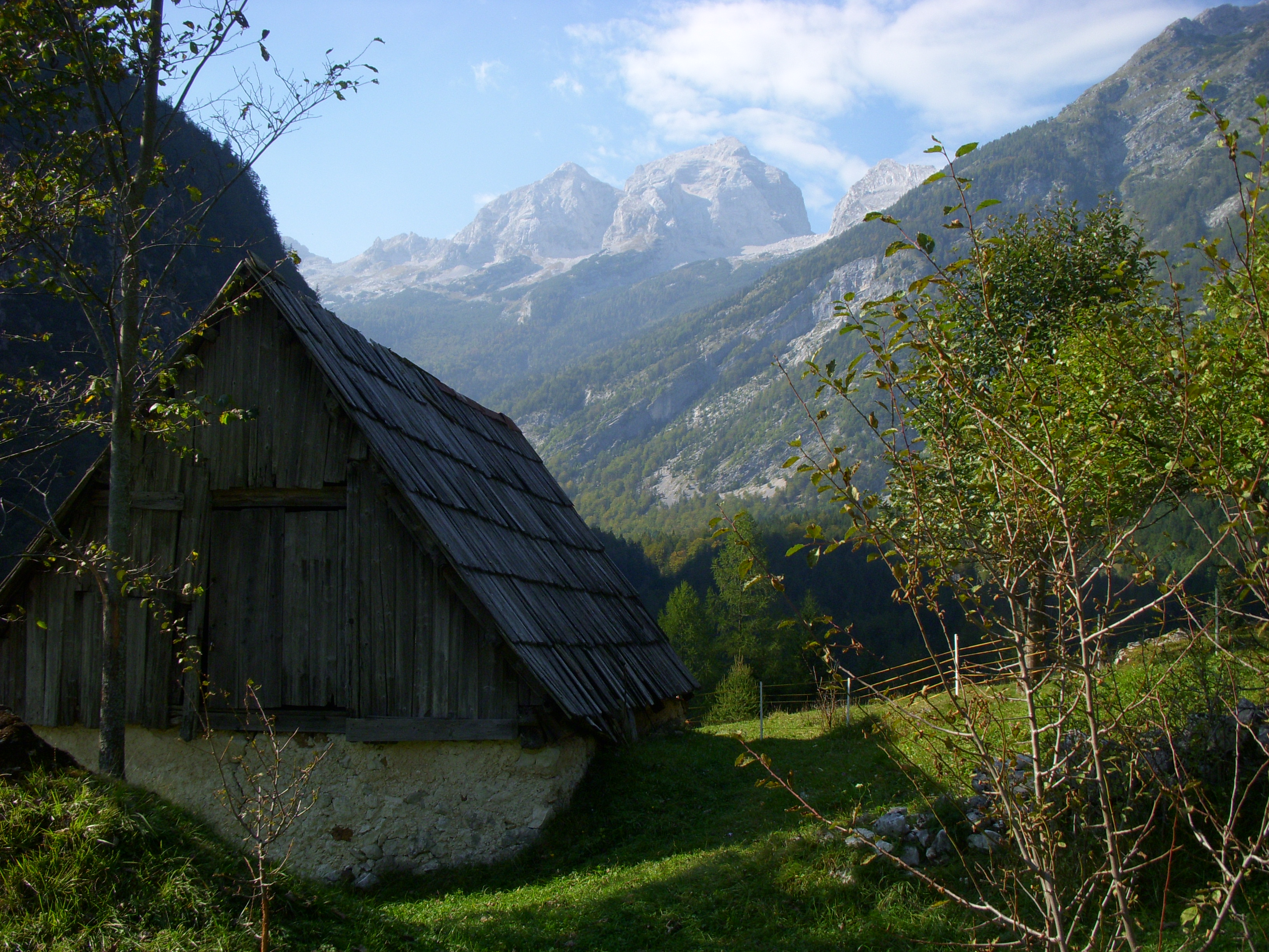 Cheese hut with background!